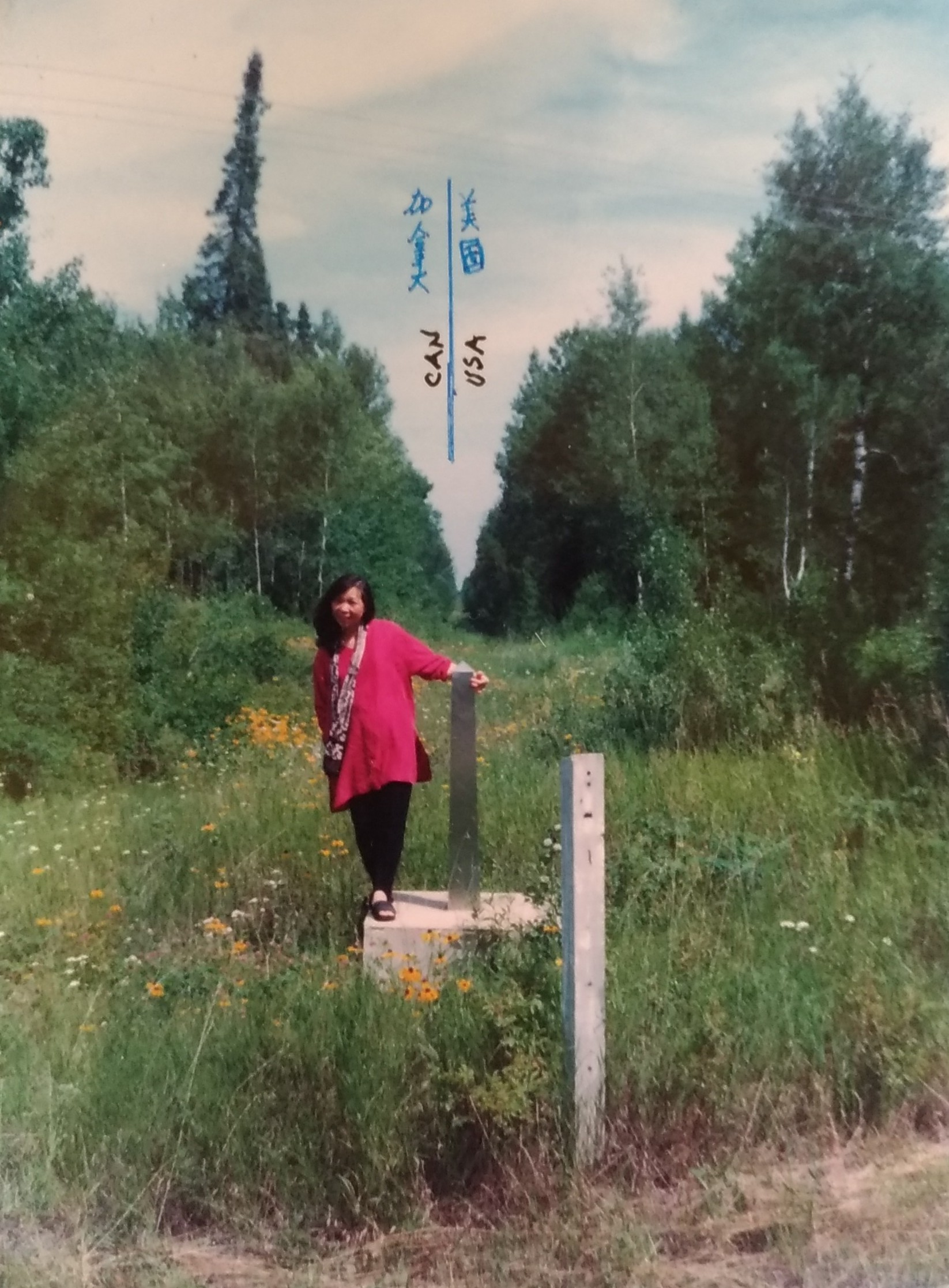 US/Canada border monument 919 (stainless steel apparently, used at road crossings, etc. where people might see them, vs. using more plain materials.) Location: on the small part of the 49th parallel border that runs north-south — the tiny bump on top of the shape of Minnesota. Here looking north, from Manitoba provincial trunk highway 525, unattended crossing point [because the only road back out is the same one.] 95d 09'W 49d 17' N; Sec 15 T167N R35W Lake of the Woods County, Minnesota; Sec 7 R16E T4N, Northwest Angle Provincial, and State, Forest. Note: foreground has an apparently inconsequential extra post. Note: according to regulations, trees are cut to maintain a line of sight all along the border, thus you see a notch in the horizon. Elev. 346 m. Pictured is DENG Yingyu.